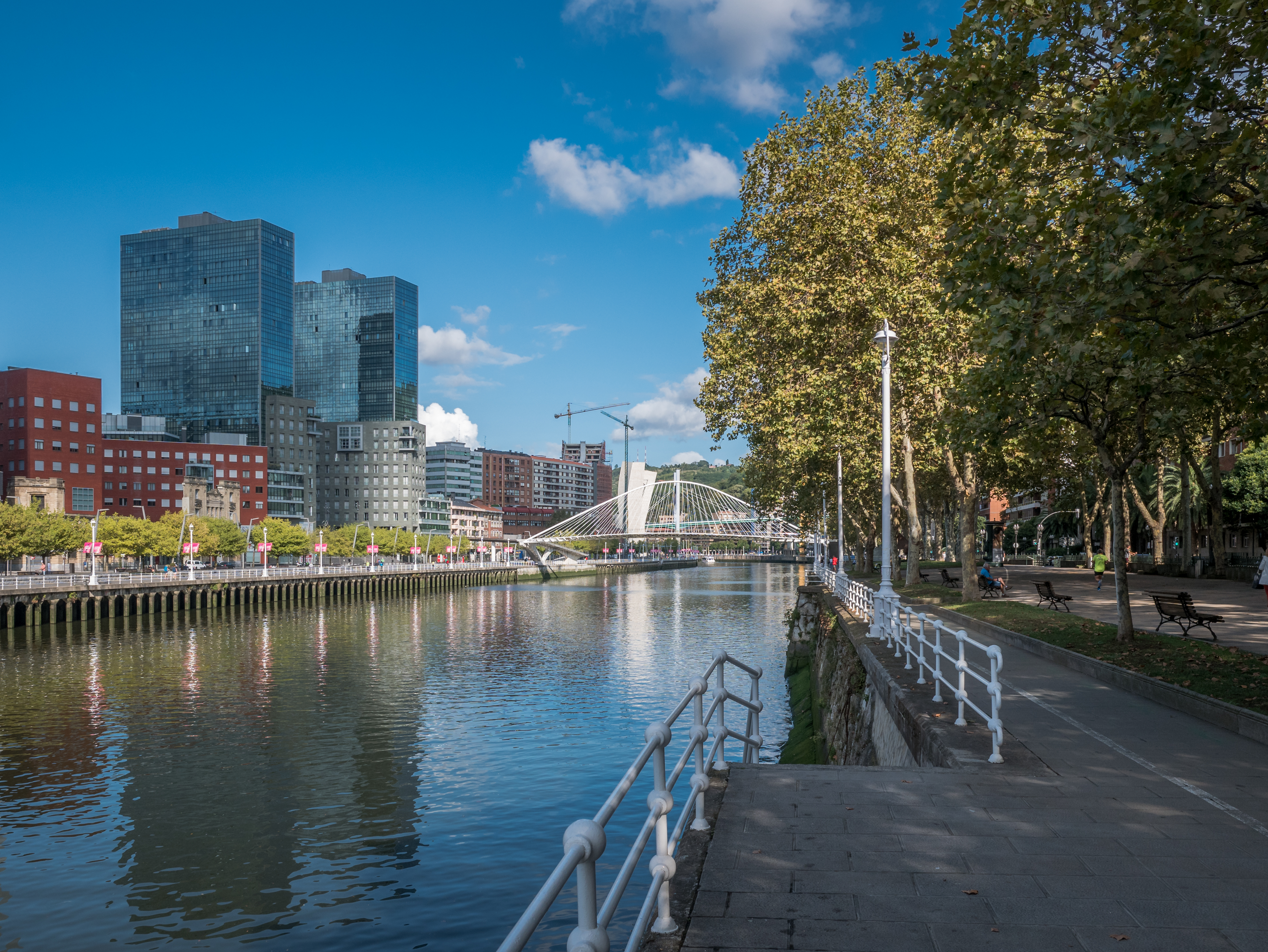 Zubizuri bridge. Bilbao, Biscay, Spain. See also: Santiago Calatrava.